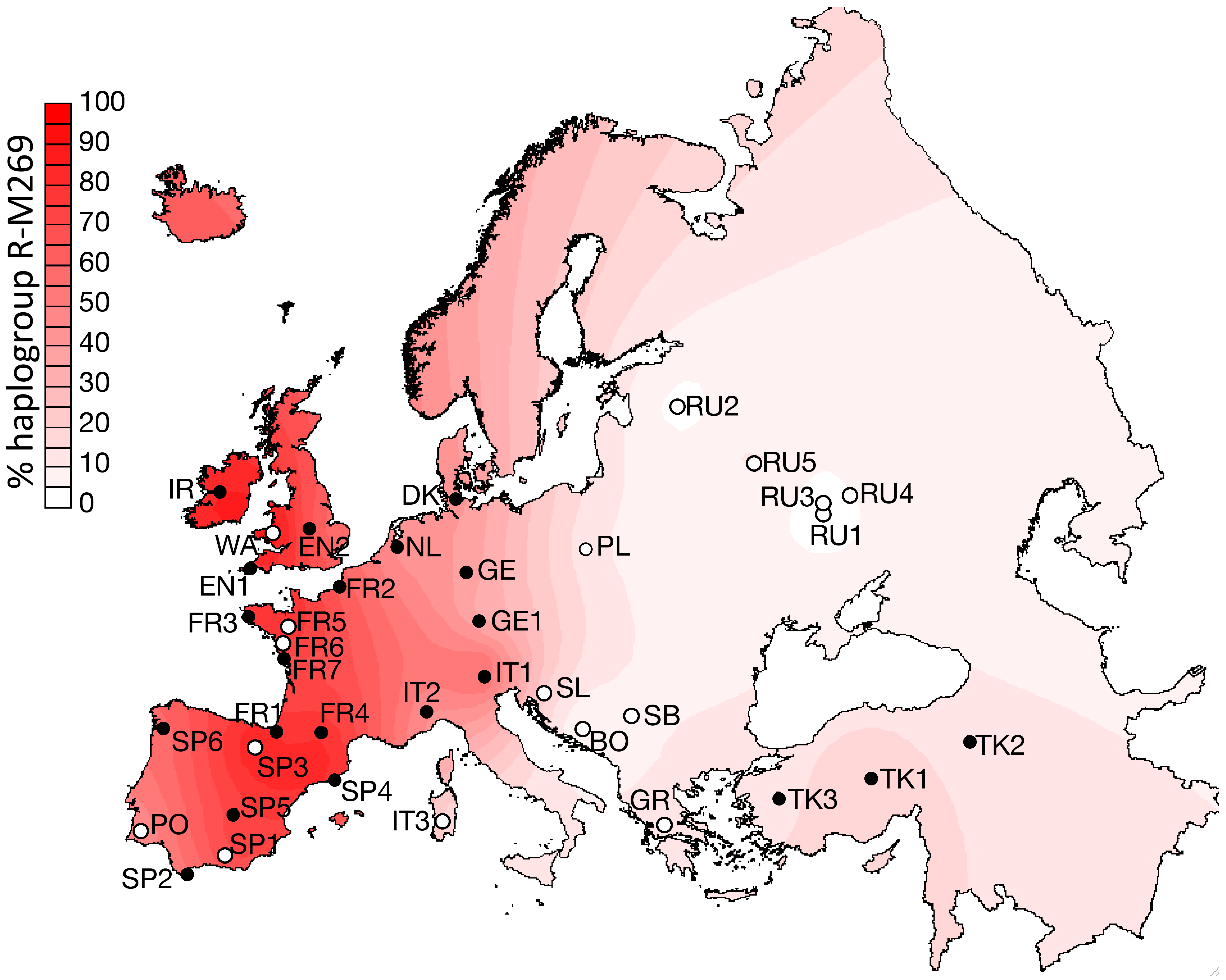 Geographical distribution of haplogroup frequency of hgR1b1b2 (R-M269), shown as an interpolated spatial frequency surface. Filled circles indicate populations for which microsatellite data and TMRCA estimates are available. Unfilled circles indicate populations included to illustrate R1b1b2 frequency only. Population codes are defined in Table 1. Haplogroup R1b1b2 (R-M269) is the commonest European Y-chromosomal lineage, increasing in frequency from east to west, and carried by 110 million European men.